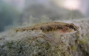 Picture of Knipowitschia panizzae